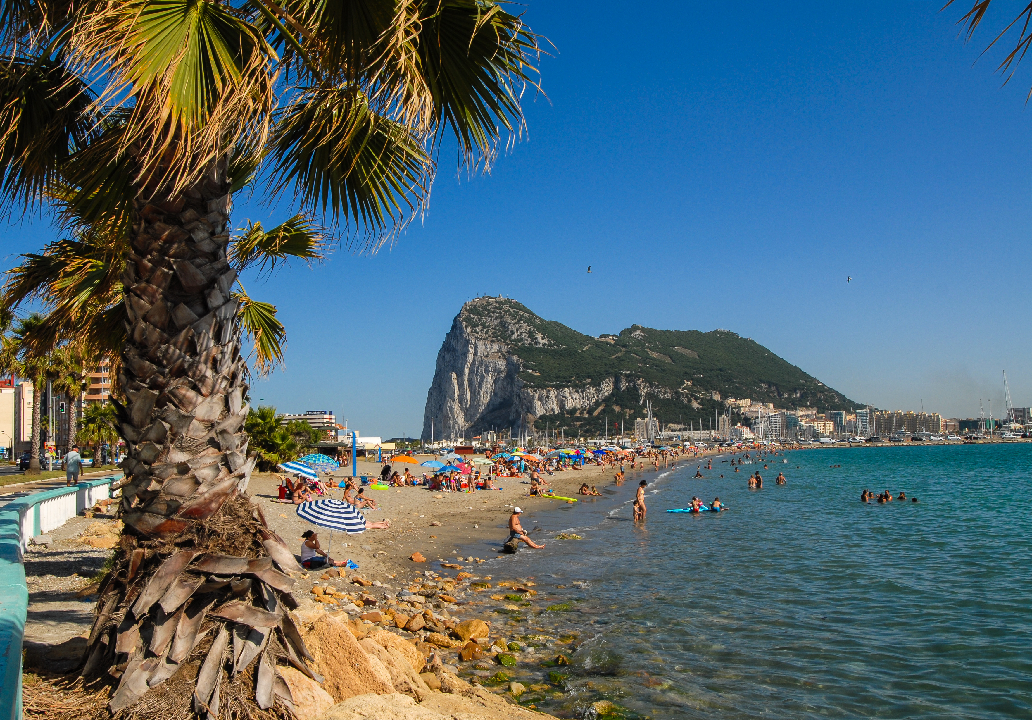 Gibraltar seen from La Línea de la Concepción